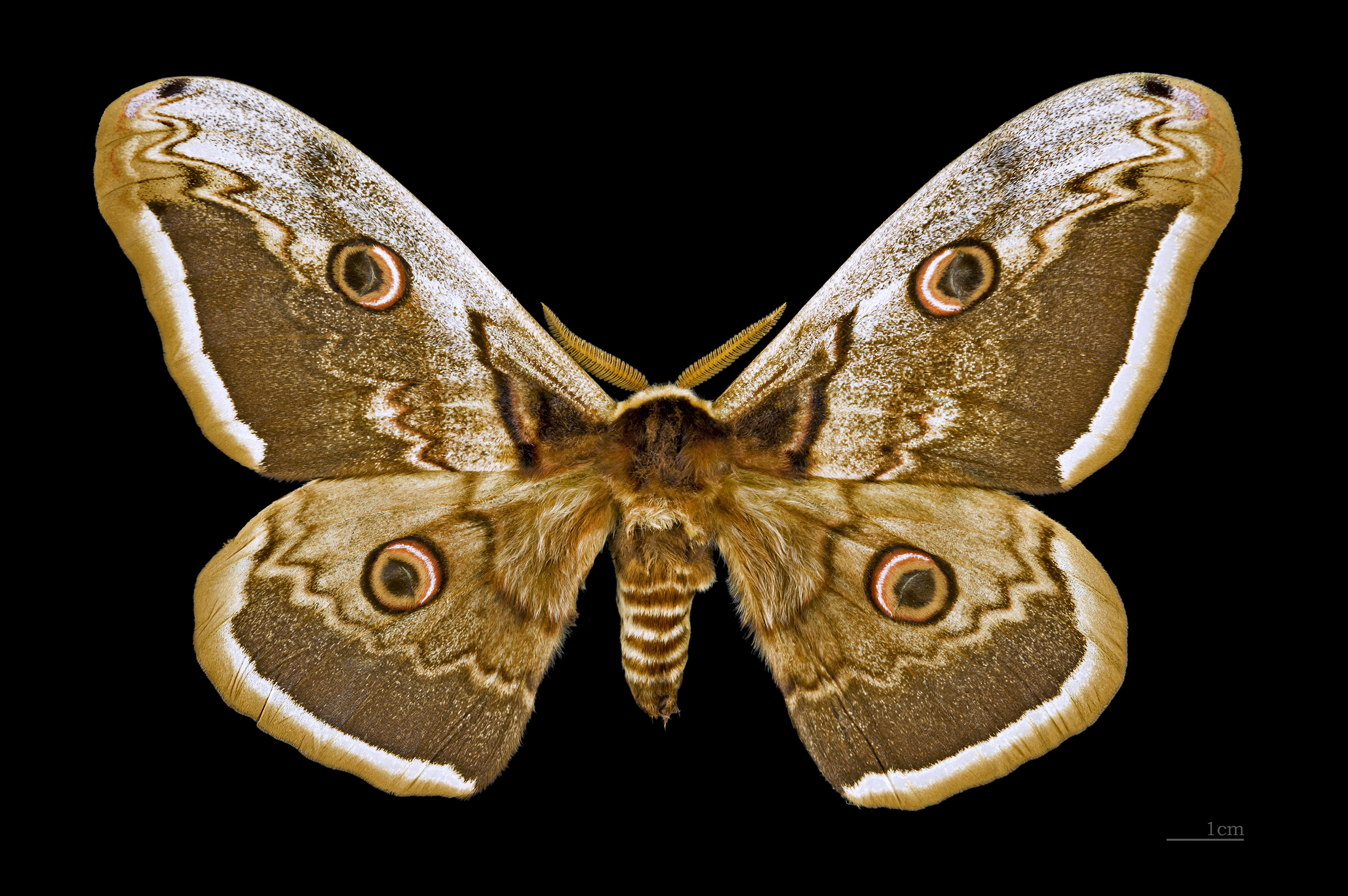 Giant Peacock Moth - Dorsal side